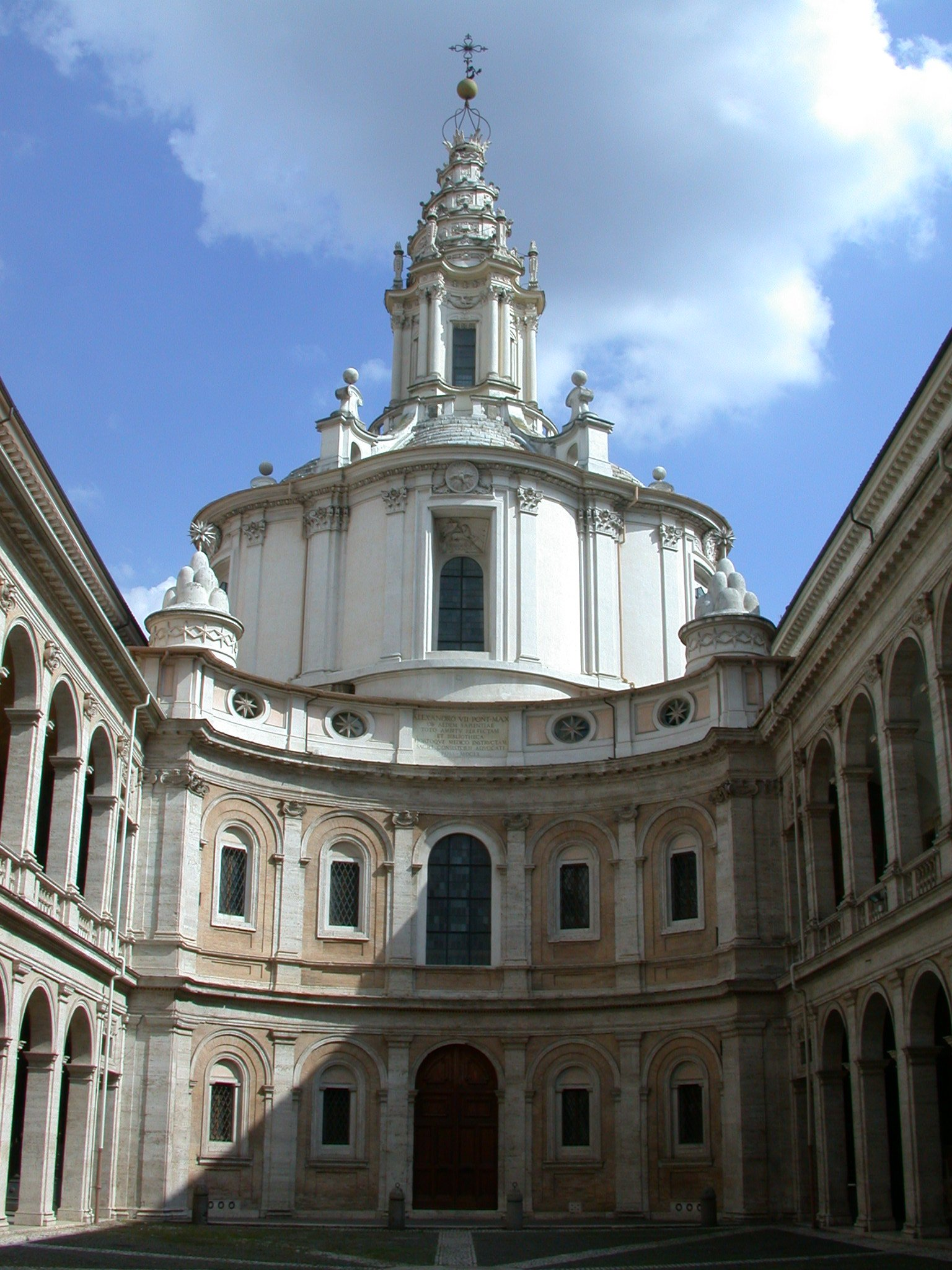 Sant' Ivo alla Sapienza in Rome, built by Francesco Borromini